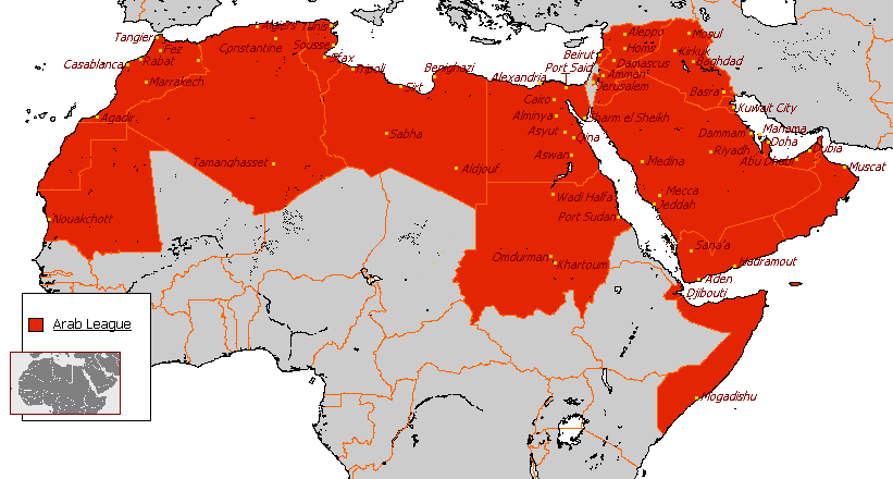 Arab League countries, highlighted in orange. The city of Juba may be misplaced.